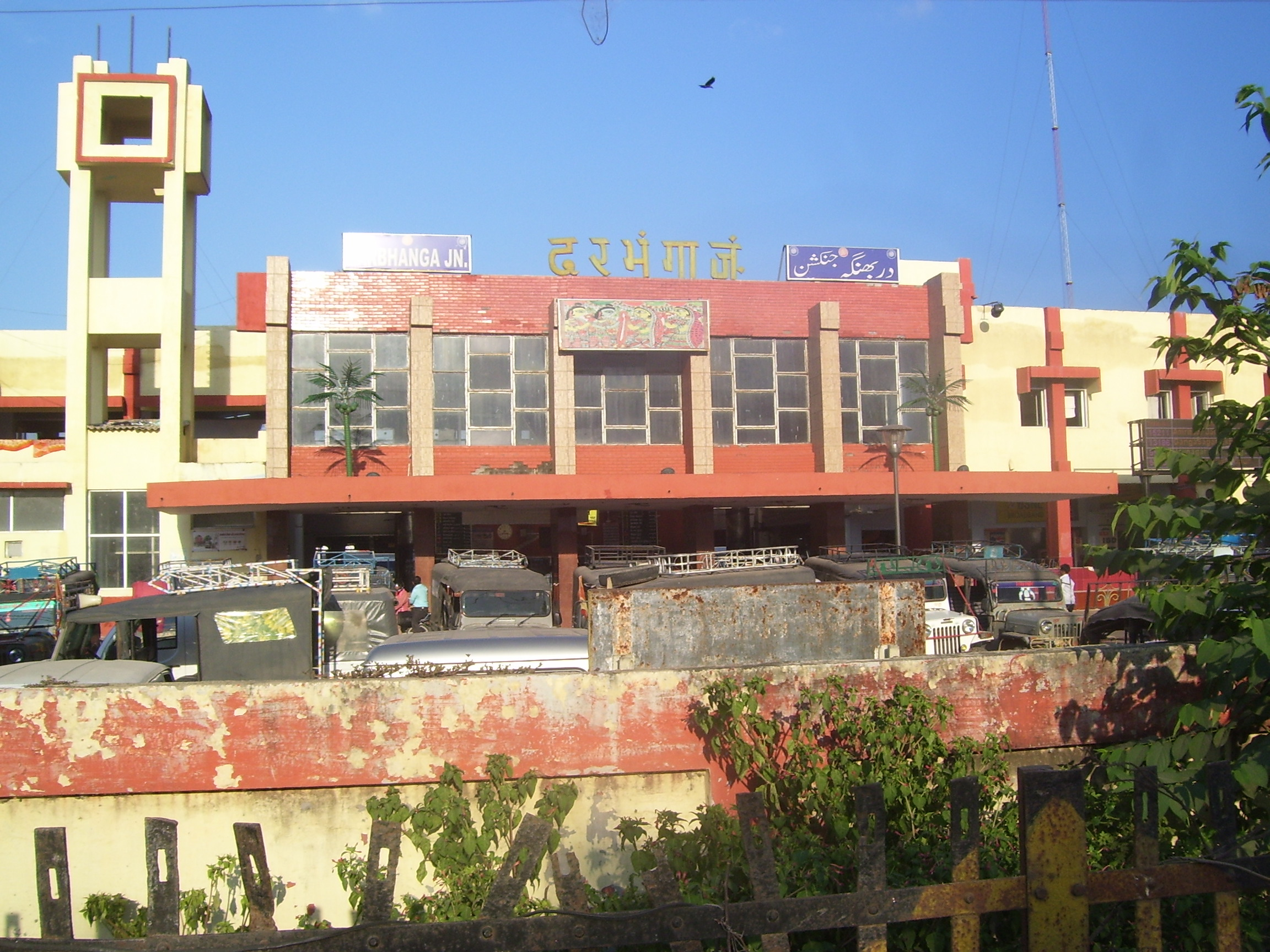 darbhanga junction image